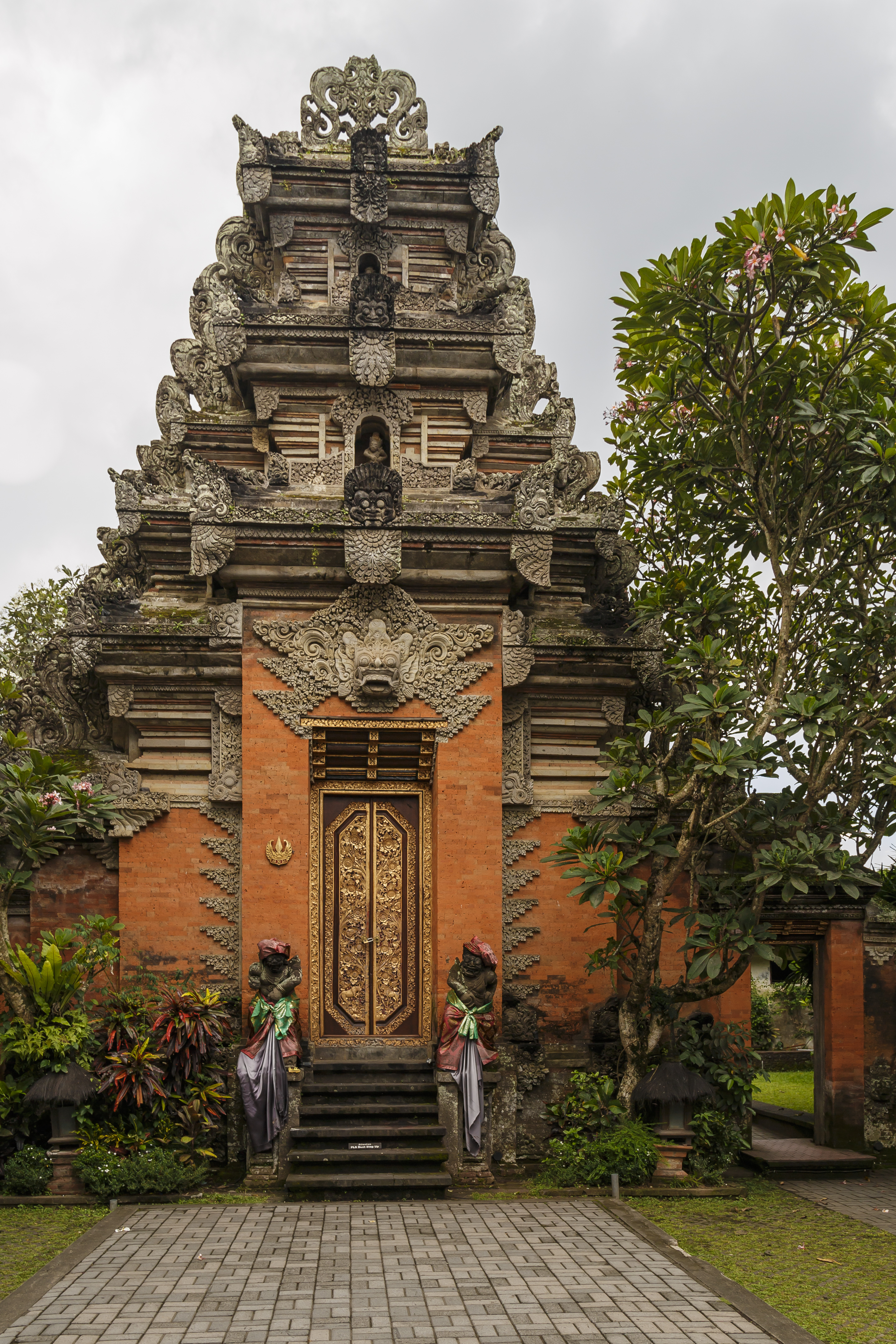 Ubud, Bali, Indonesia: Tempel in the Royal Palace of Ubud